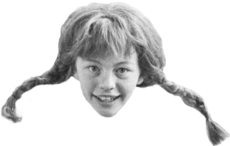 Pippi Longstocking's (Inger Nilsson's) head.